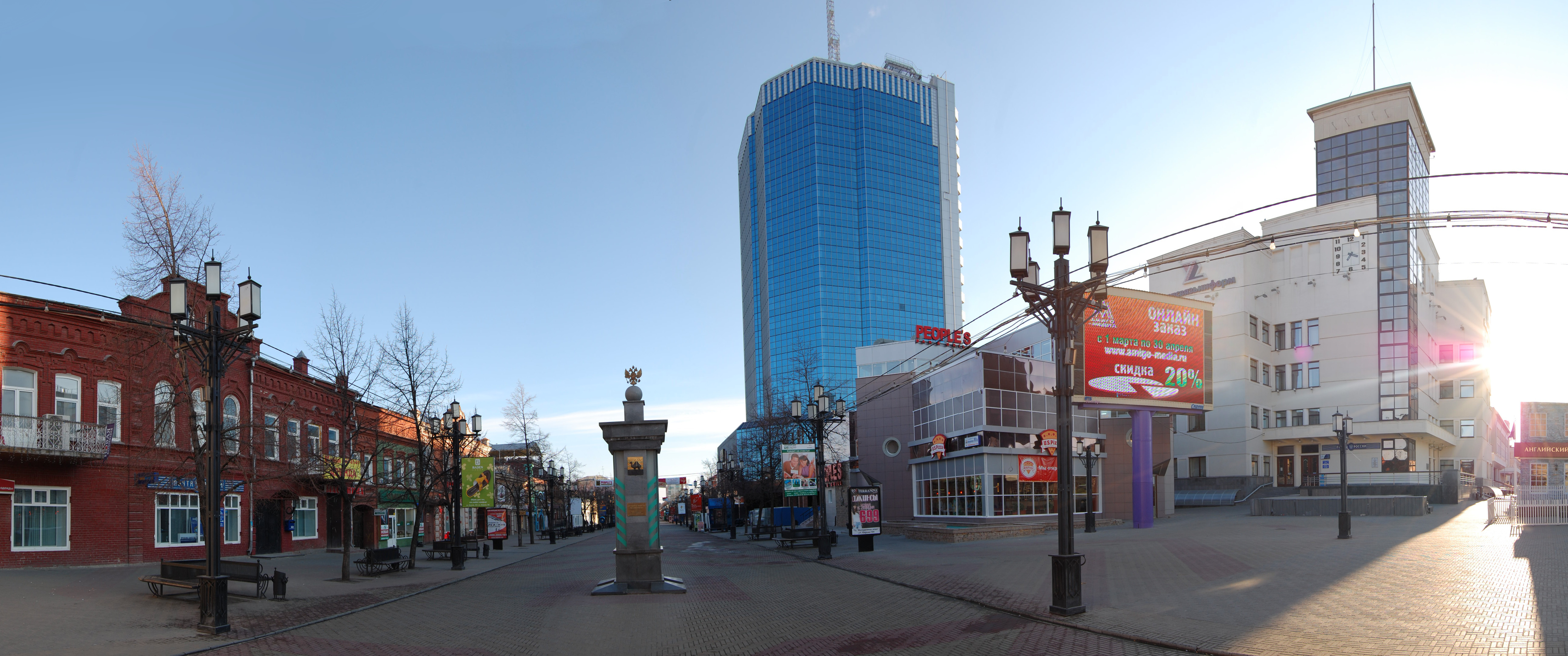 Kirova Street, the central pedestrian street in Chelyabinsk, Russia.